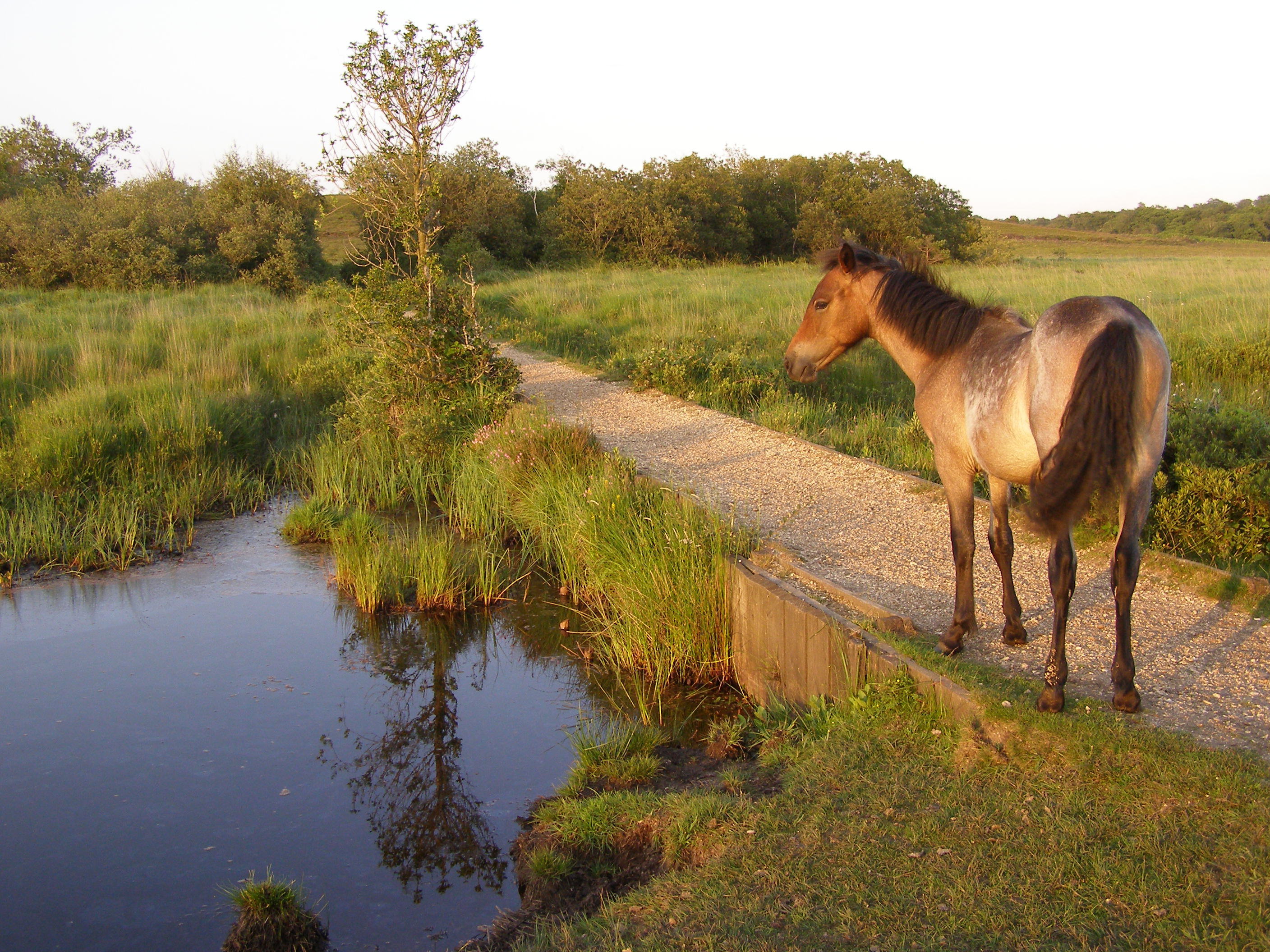 Pony standing on causeway across the mire in the Bishop of Winchester's Purlieu